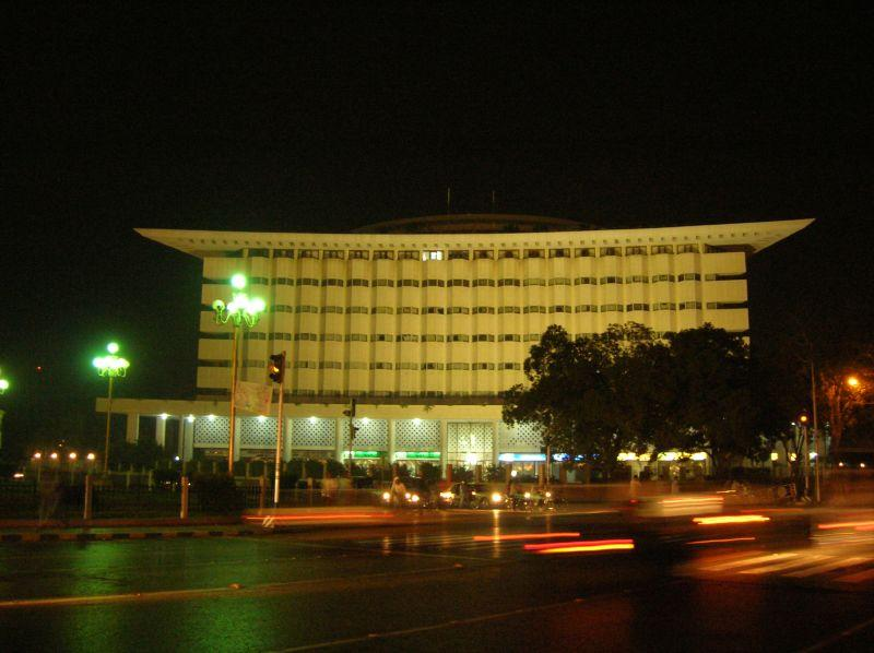 Wapda House Building